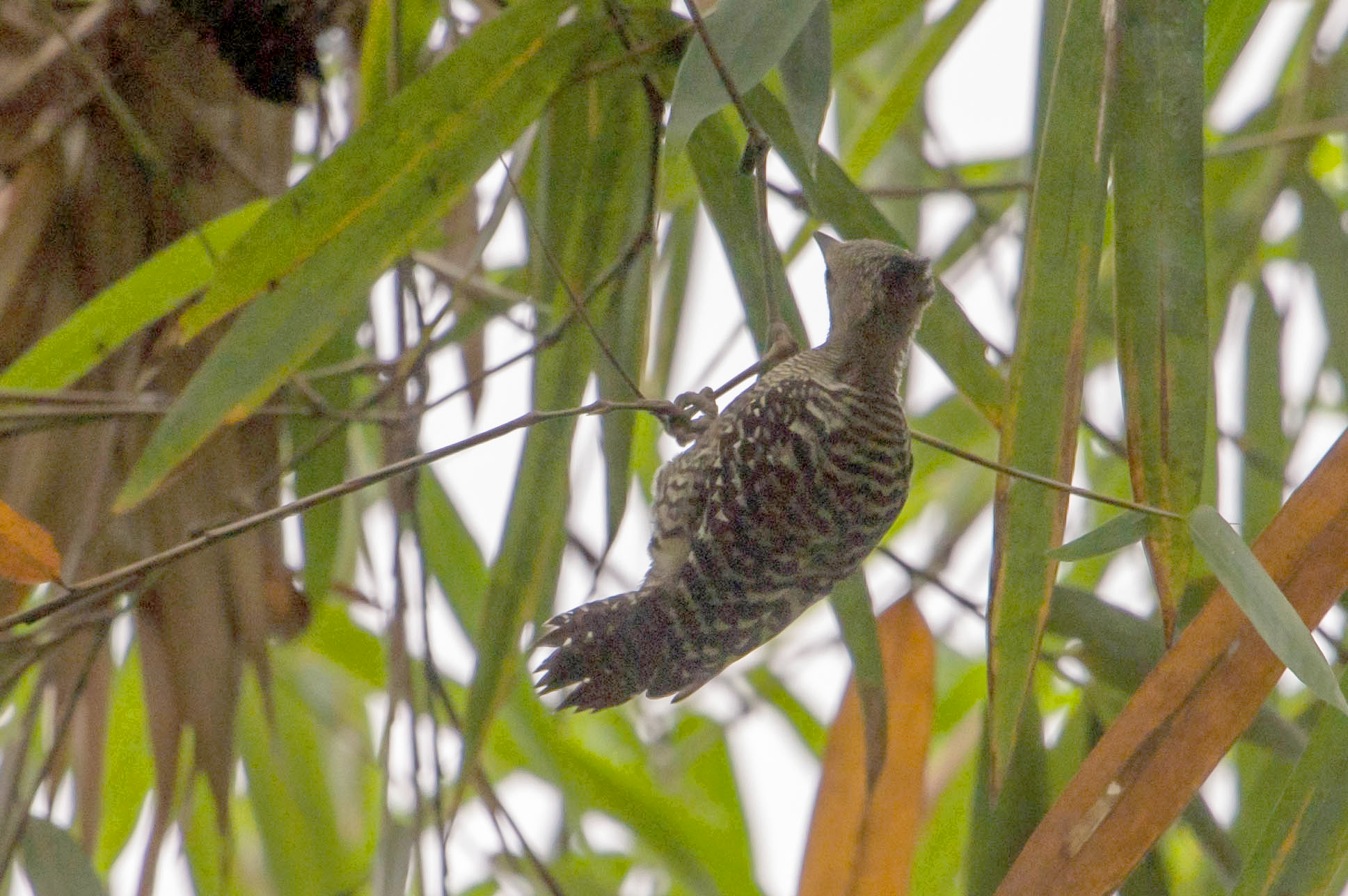 Buff-rumped Woodpecker (Meiglyptes tristis) at Kaeng Krachan, Phetchaburi, Thailand